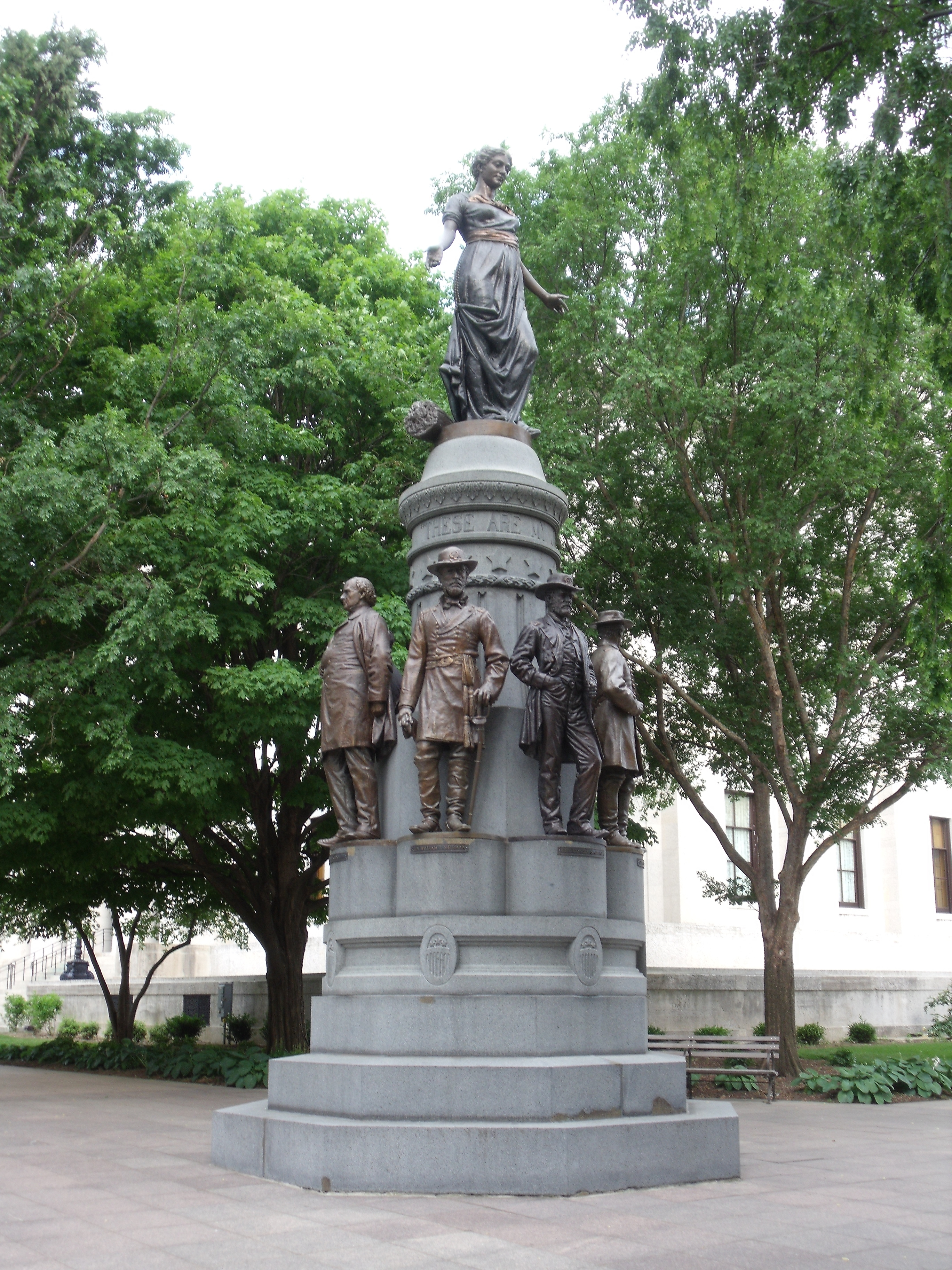 Statue